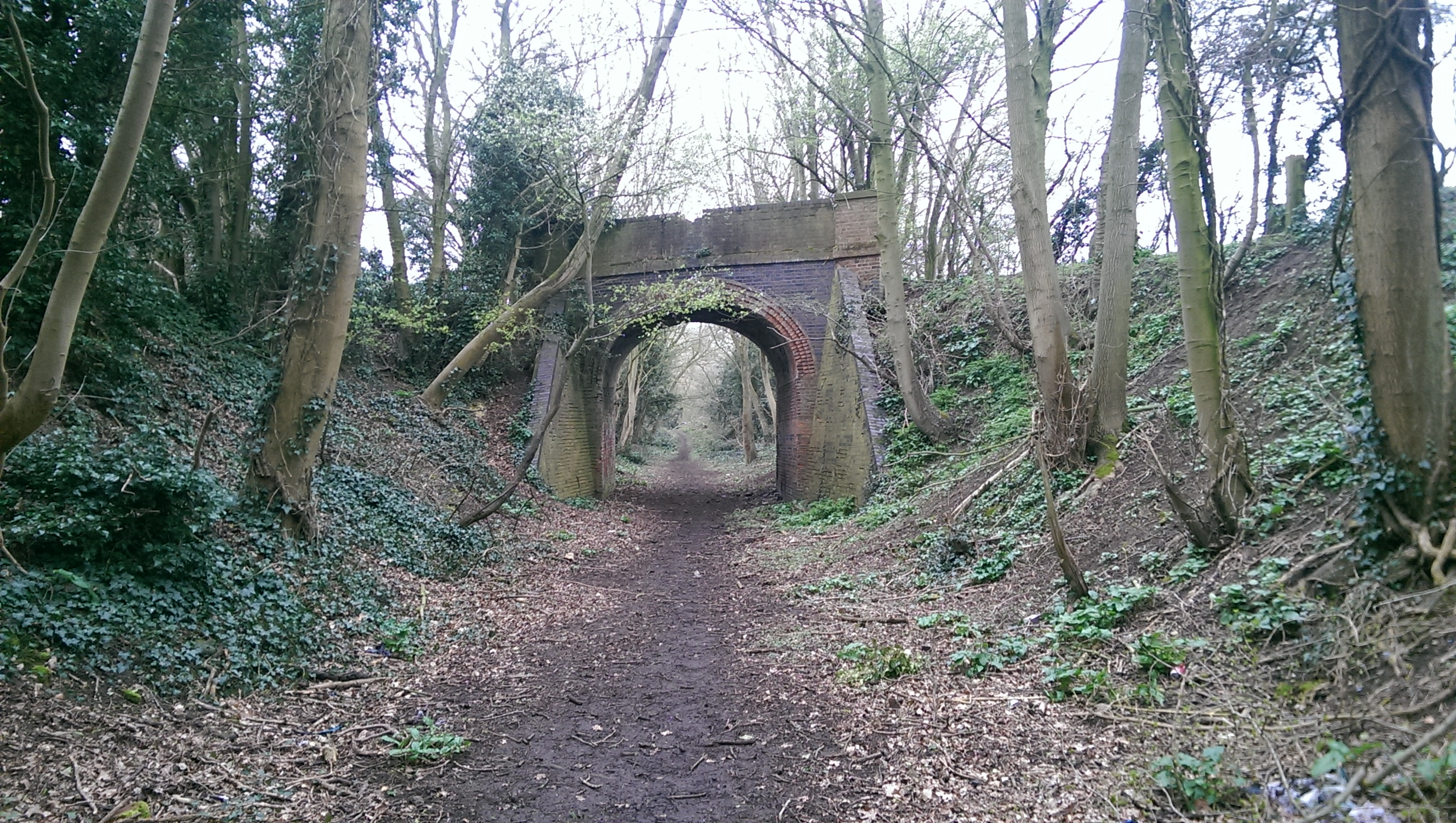 Bridge and track bed of the Thetford, Watton and Swaffham Railway